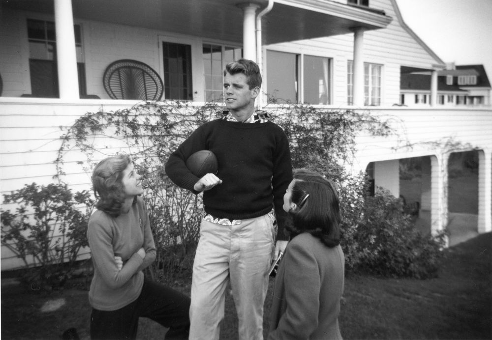 Robert F. Kennedy holds a football in Hyannis Port, Massachusetts with sisters Eunice Kennedy and Jean Kennedy.